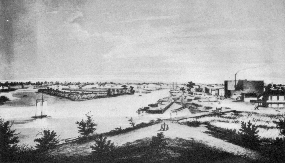 Stockton, California, circa 1860, from an old lithograph.